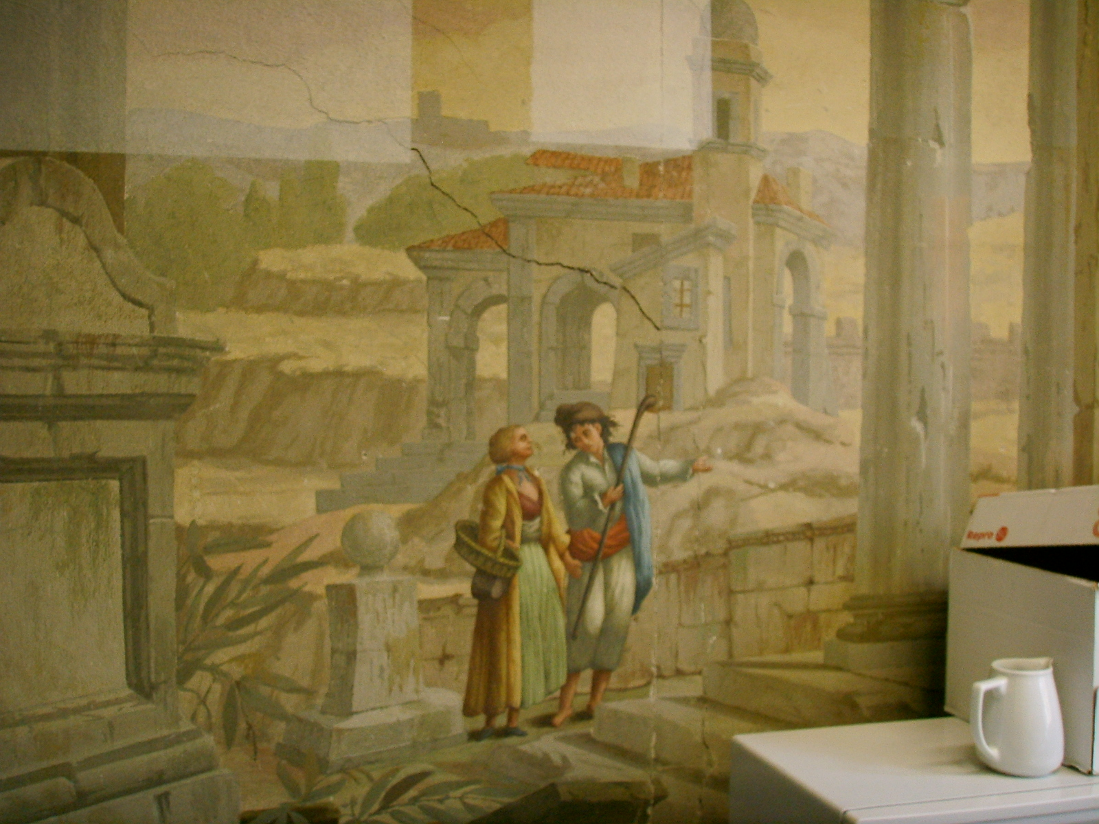 Palazzo_di_San_Clemente,_ library frescoed rooms. See filename for room ref. number Frescos of XVIII century by unknown author(s) in Florence